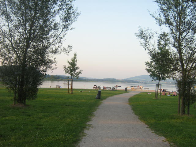 Strand of Seekirchen, on the lake Wallersee